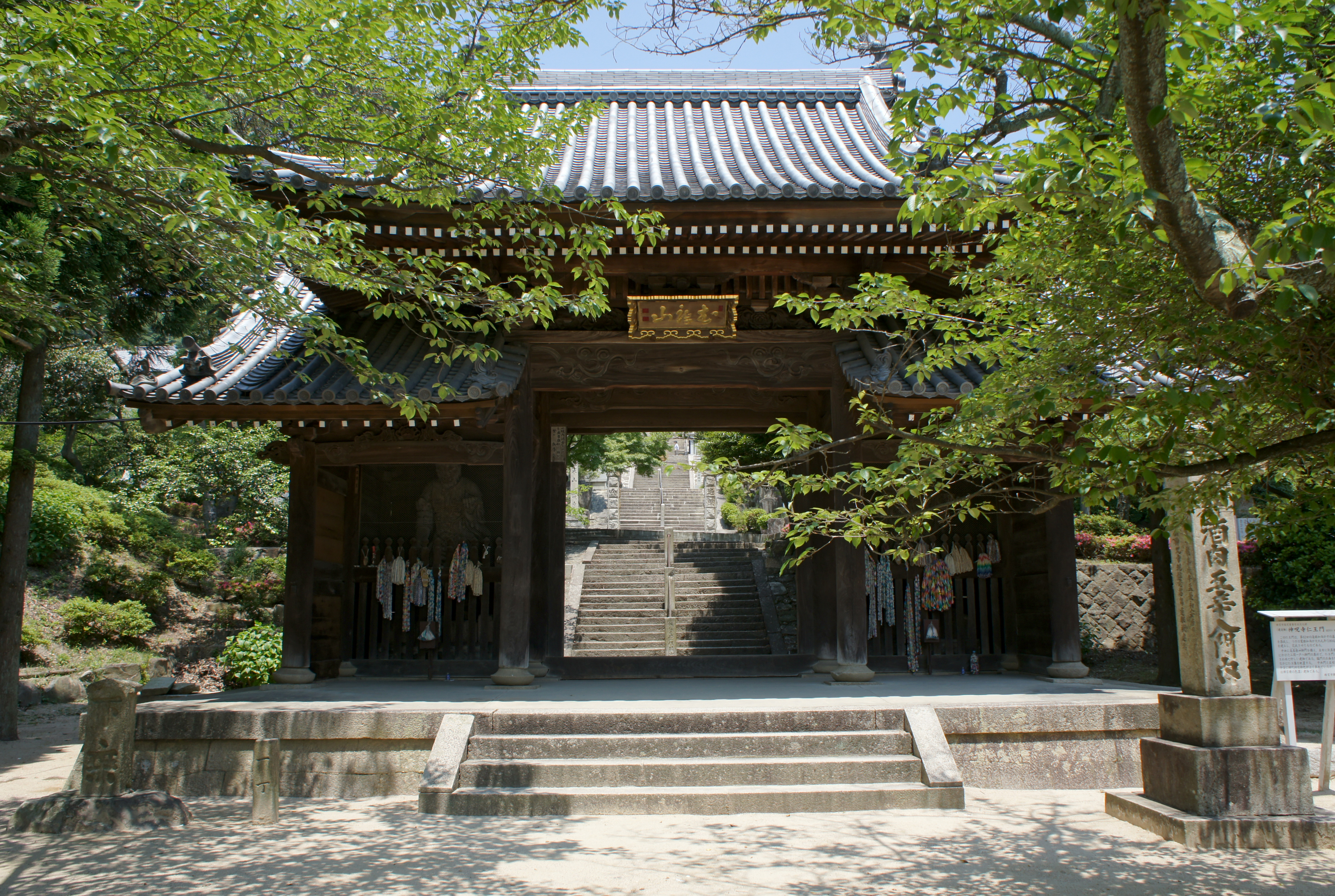 Kannō-ji in Nishinomiya, Hyogo prefecture, Japan